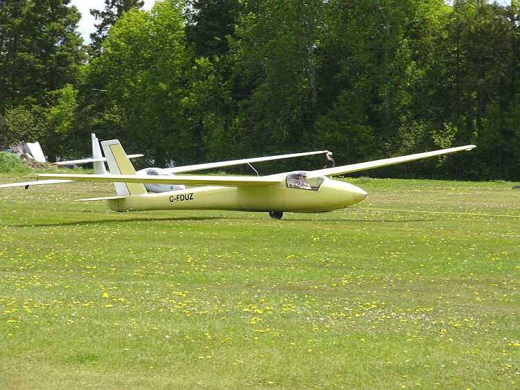 I took this photo of a Schweizer SGS 1-34 (C-FDUZ) at Kars/Rideau Valley Air Park on 24 May 08.